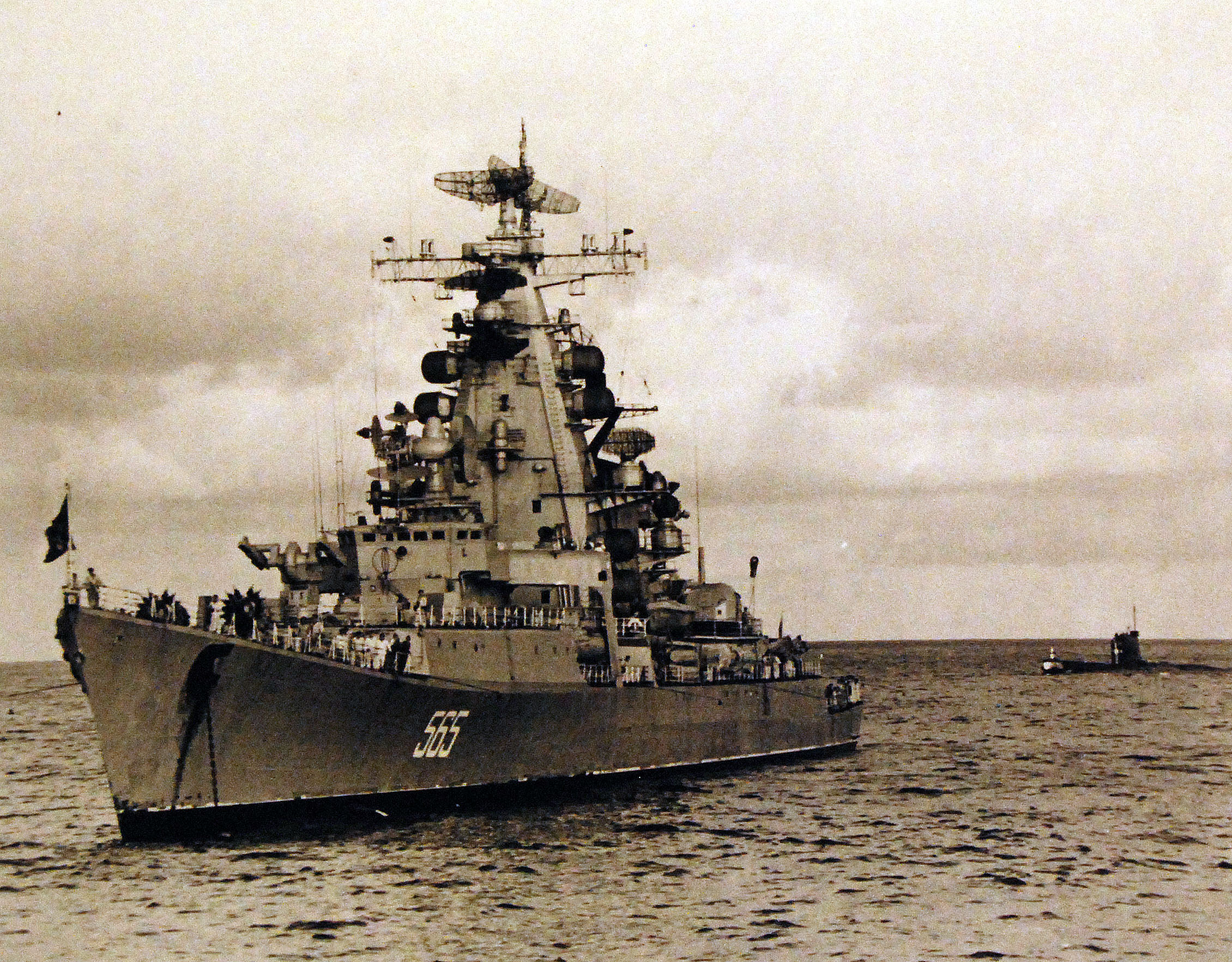 428-GX-USN 1149090: Cold War, Soviet Ships. Pacific Ocean. A Soviet Kresta class guided missile armed destroyer leader and an “F” class large attack submarine. These vessels were units of a seven ship task group that cruised through the Hawaiian waters from September 13 to 15, 1971. Photograph released September 14, 1971. U.S. Navy Photograph, now in the collections of the National Archives. (2016/05/03).